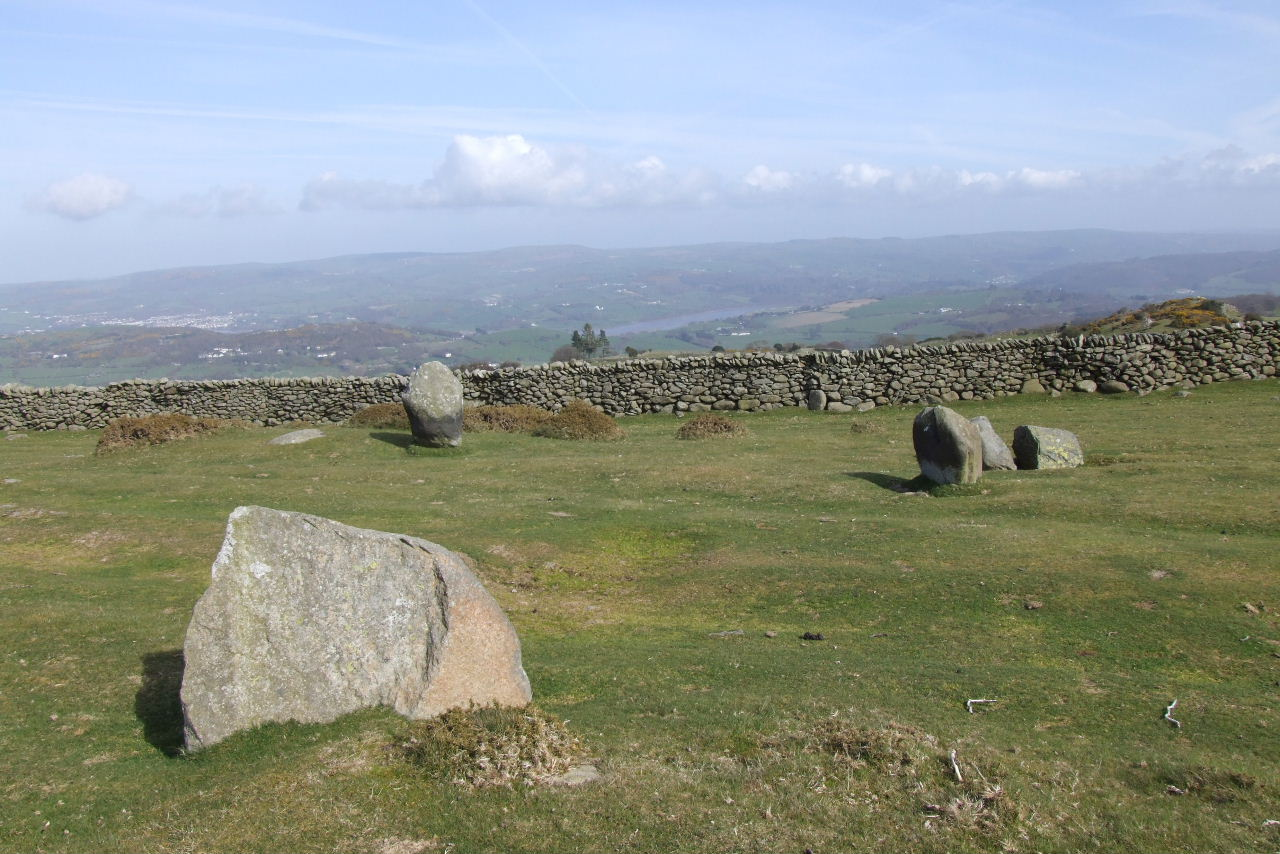 Remains of prehistoric stone circle at Cefn Llechen, between Penmaenmawr and Henryd, Conwy County, Wales.